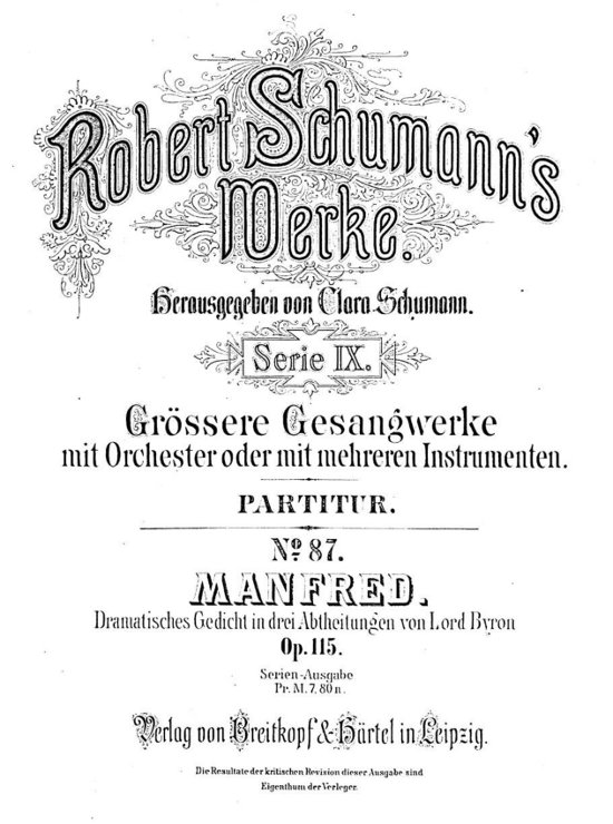 Original title page for Robert Schumann's Manfred, Op.115